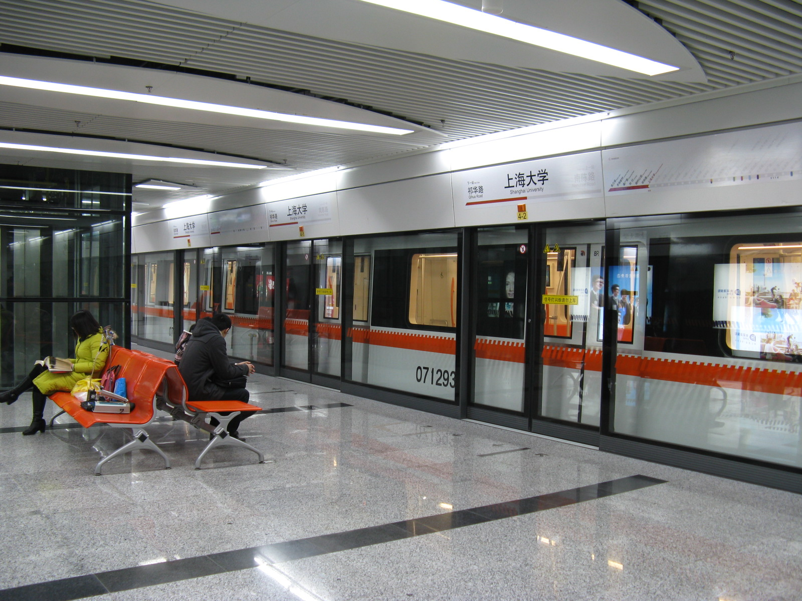 Shanghai University Station Line7 Shanghai Metro